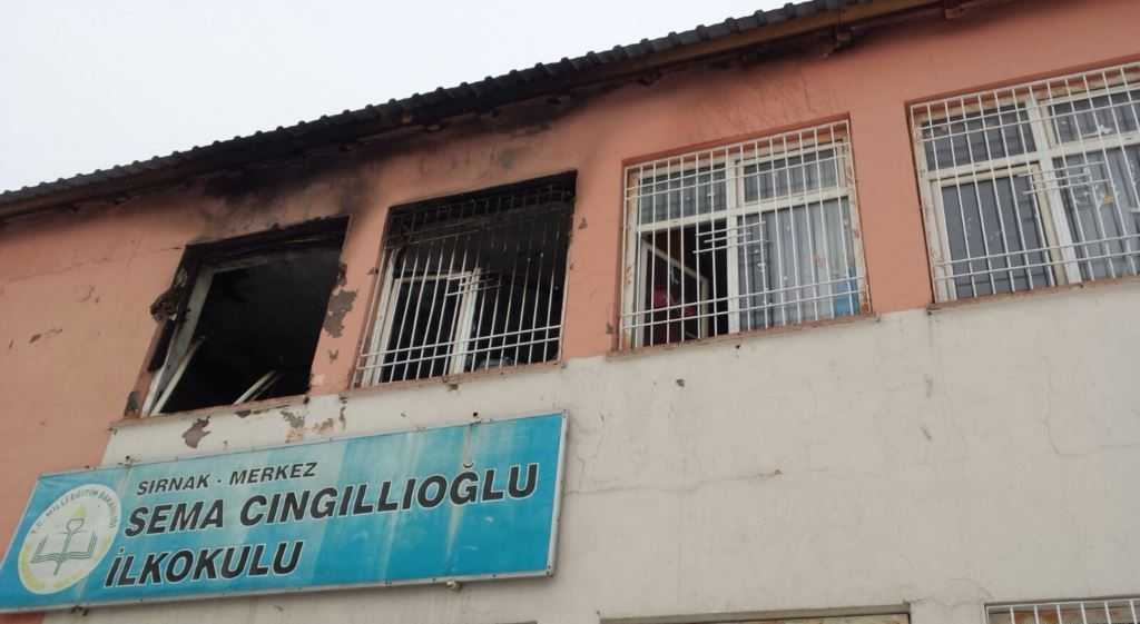 A primary school arsoned by the PKK during the 2015 Şırnak events.